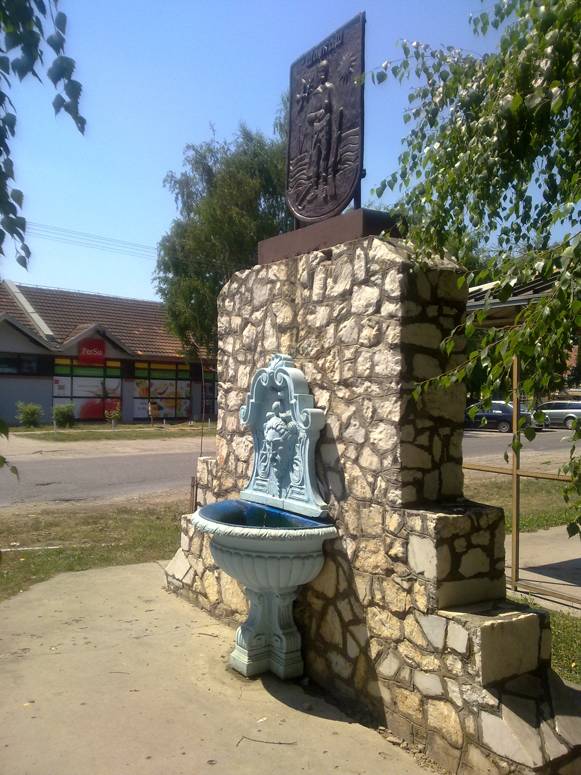 The photo shows the fountain in the centre of the village of Šajkaš (Serbia). Above the fountain, the coat of arms of Šajkaš can be seen.